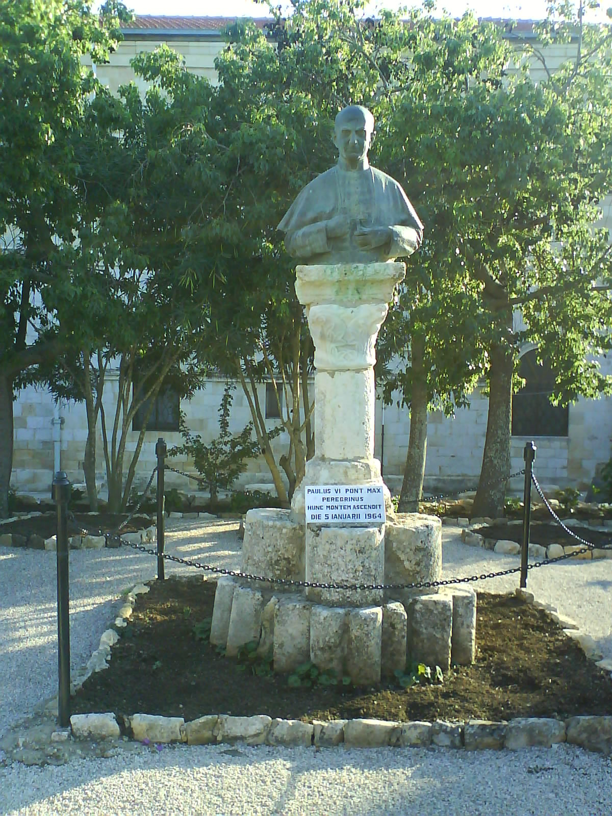 In memory of pope Paulus VI visit at the Church of Transfiguration,Mount Tabor